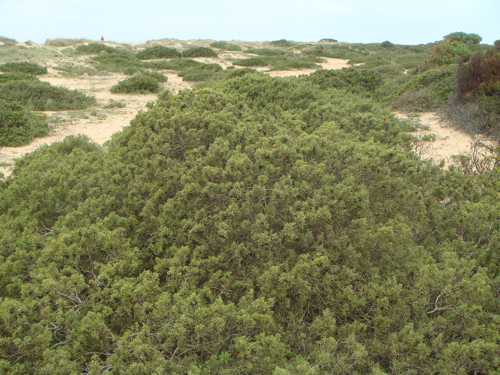 (Juniperus phoenicea subps. turbinata) province of Cádiz, Spain.